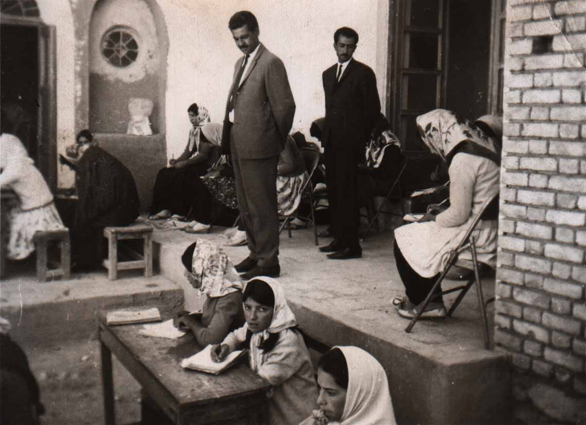 Elementary school female students exam, 1966. local officials visits.